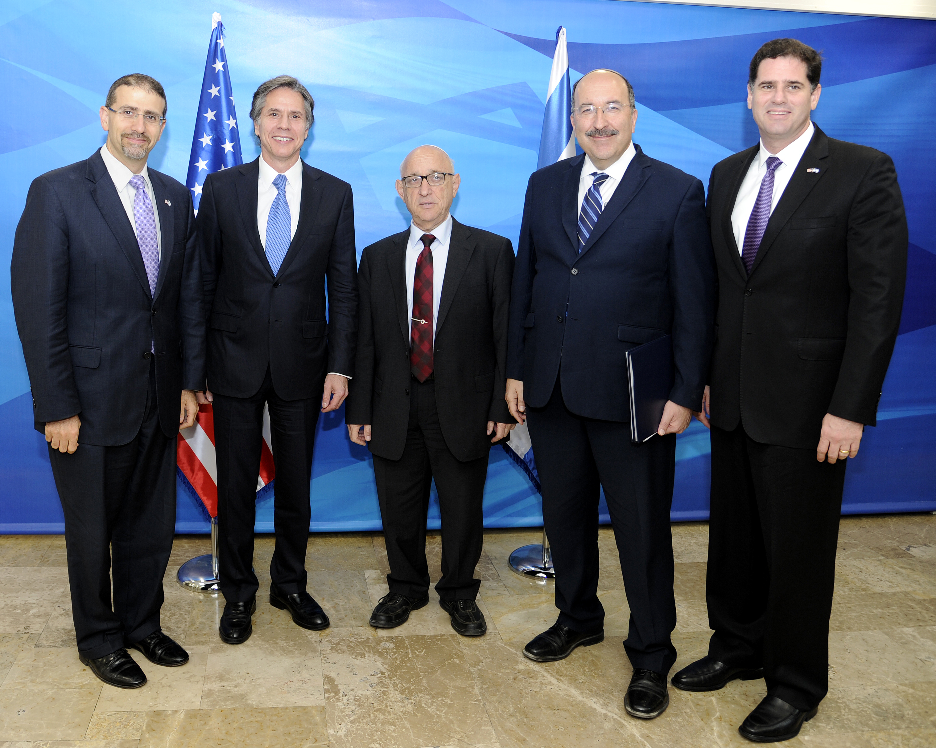 From left, Deputy Secretary of State Antony "Tony" Blinken poses for a photo with U.S. Ambassador to Israel Daniel Shaprio, Israeli Acting National Security Advisor Jacob Nagel, Director-General of the Israeli Ministry of Foreign Affairs Dore Gold, and Israeli Ambassador to the U.S. Ron Dermer at the start of the U.S.-Israel Strategic Dialogue in Jerusalem on June 16, 2016. [U.S. Embassy Tel Aviv photo by David Azagury/ Public Domain]